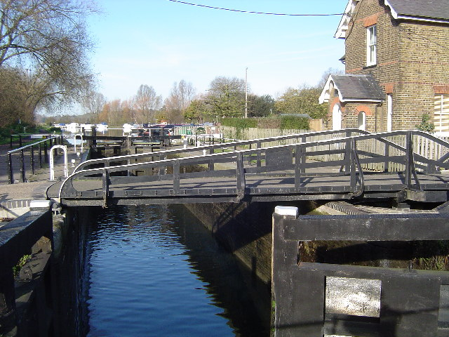 River Lee Navigation: Stanstead Lock Viewed looking northwards from the footbridge, there is an unusual swing bridge over the lock which merits its own mention on the OS 1:25,000 scale mapping.